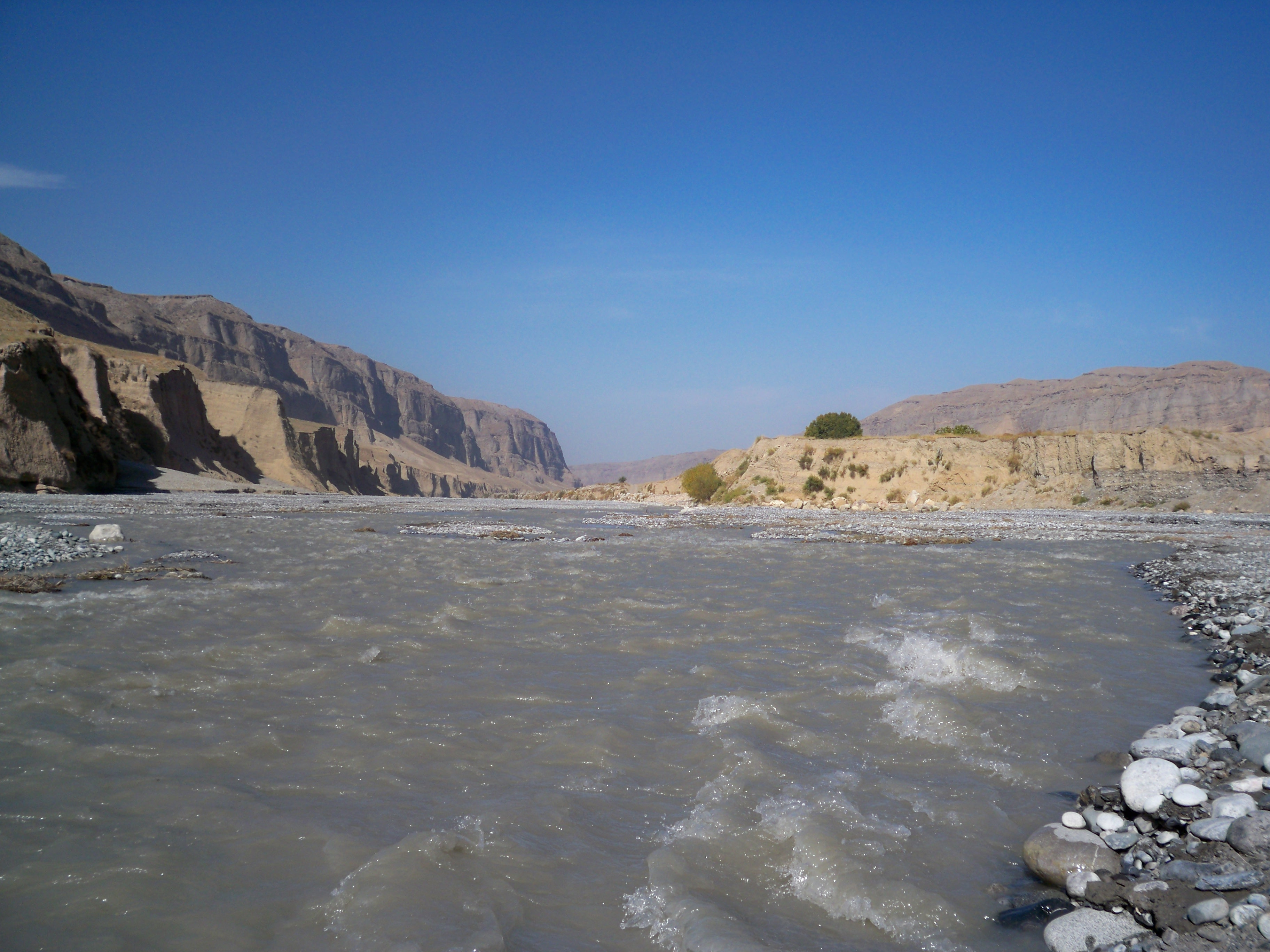 The Ak-Suu River near the village of Choyunchu (formerly called Jenish). Leilek District, Kyrgyzstan.